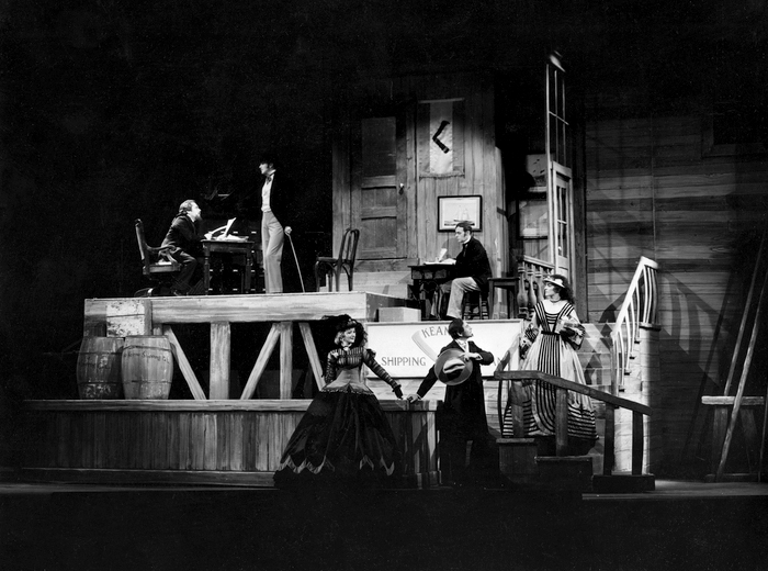 Photograph of setting for the Broadway production Gold Eagle Guy Caption reads as follows: Donald Oenslager's Constructivist setting for Gold Eagle Guy. A San Francisco office—1854.